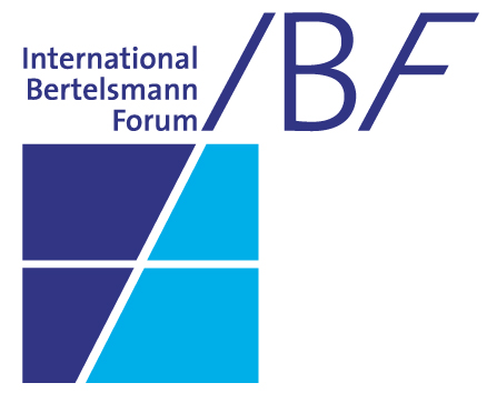 Logo of the International Bertelsmann Forum